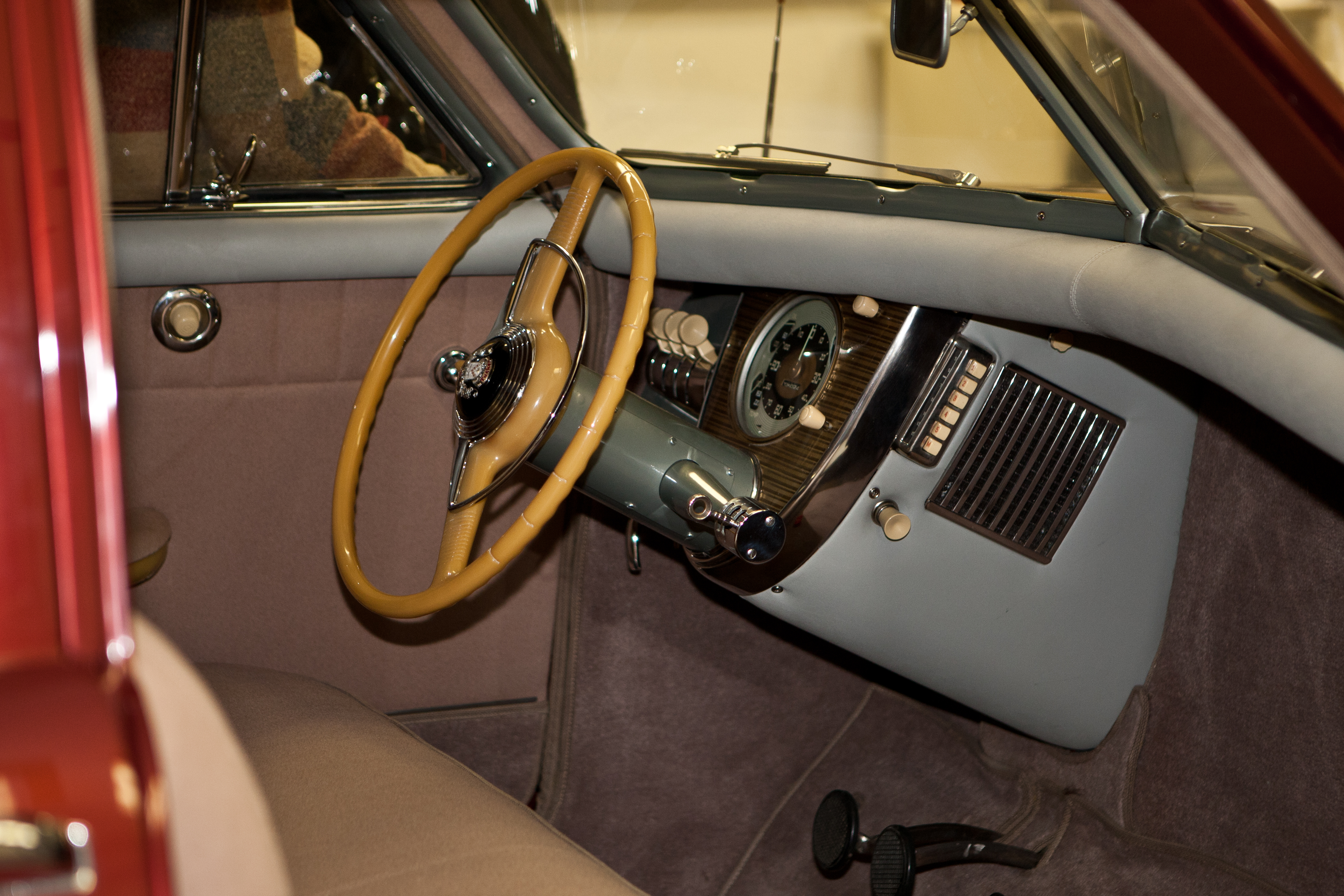 Tucker Model: ‘48 #1001 Engine: Franklin O-335 Six-cylinder Horizontally opposed, 334 Cubic inches, 166 hp Cammack Collection of Tucker automobiles, AACA Museum, Hershey, PA 17033